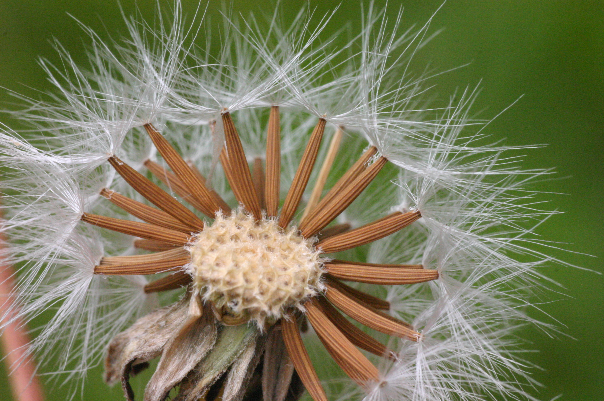 Crepis biennis